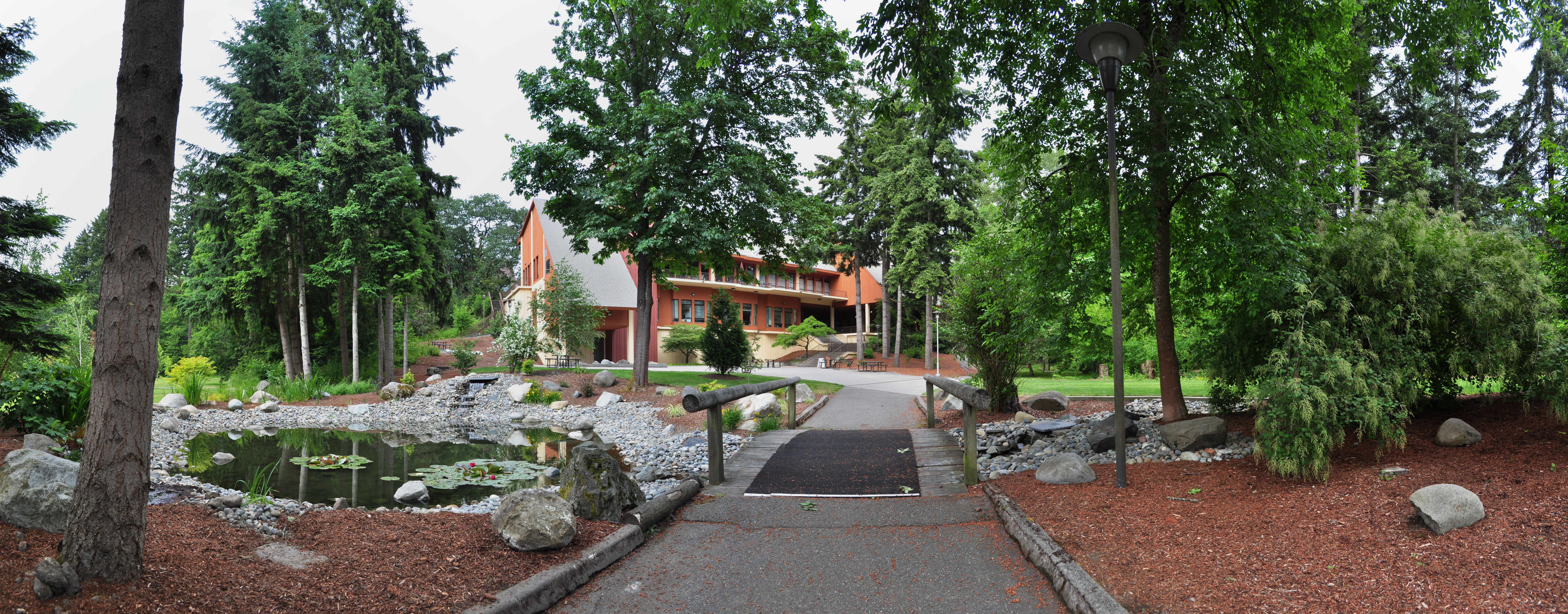 Panoramic view of garden at rear of Loren and MaryAnn Anderson University Center (also Scandinavian Cultural Center), Pacific Lutheran University, Parkland, Washington. This image was created with Hugin.